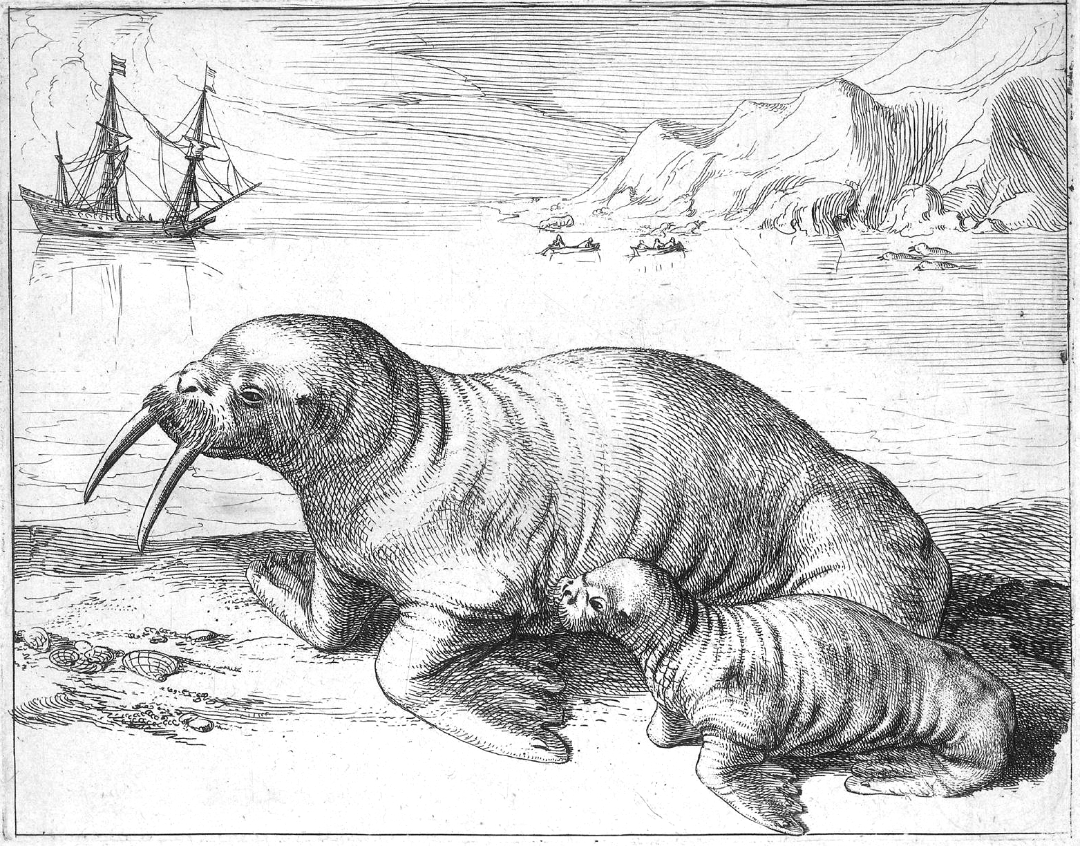 Walruses on Spitsbergen. 1613. Etching. 170 × 218 mm. Amsterdam, Rijksmuseum Amsterdam (inv.no. RP-P-OB-52.602). From Hessel Gerritsz (1613) Histoire du pays nomme Spitsberghe, Amsterdam: s.n.